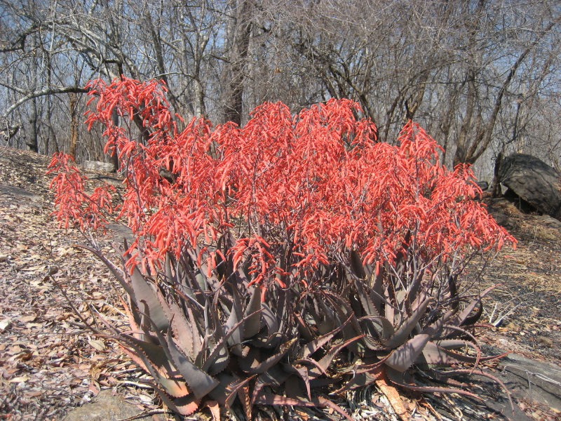 Aloe chabaudii at Mount Humbe, Barue district in Manica province of Mozambique